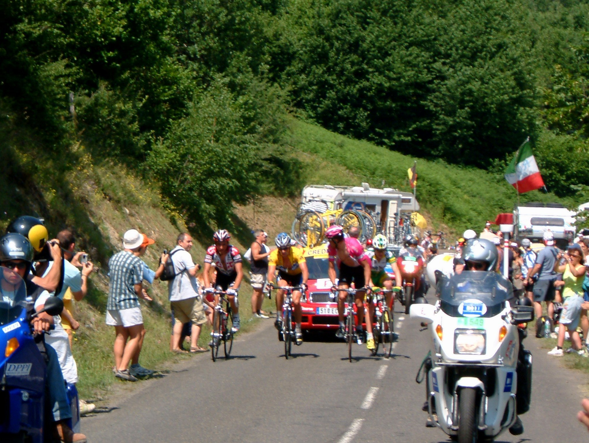 Tour de France - July 2005 No. 1 Lance Armstrong, flanked by 21 Ivan Basso and 11 Jan Ullrich, followed by 66 Floyd Landis at Port de Paiheres on 16th July at 15:30 This was the finishing order in Paris 10 days later